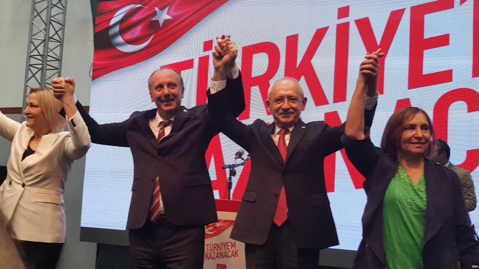 Muharrem İnce being nominated as the CHP's presidential candidate, 4 May 2018